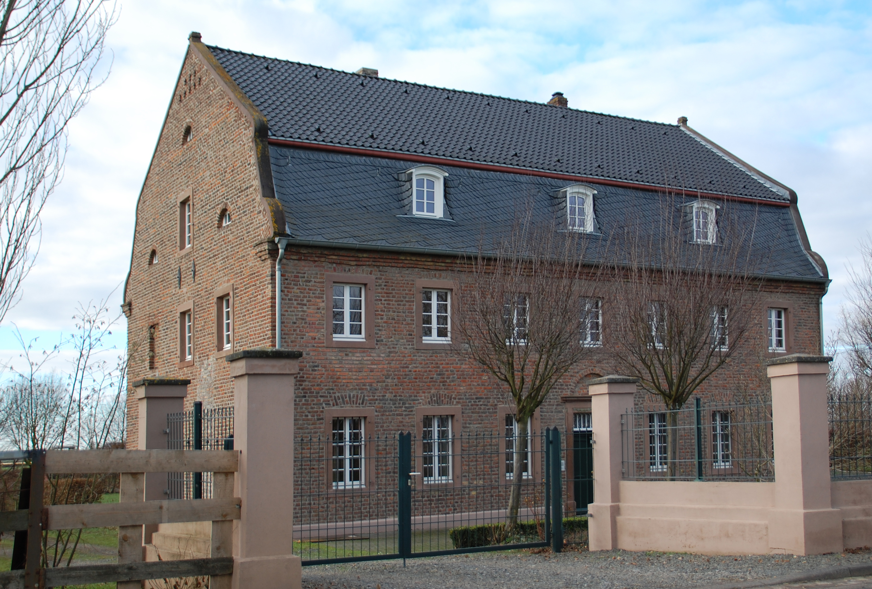 Picture from the small village Mellerhöfe, Erftstadt, Germany